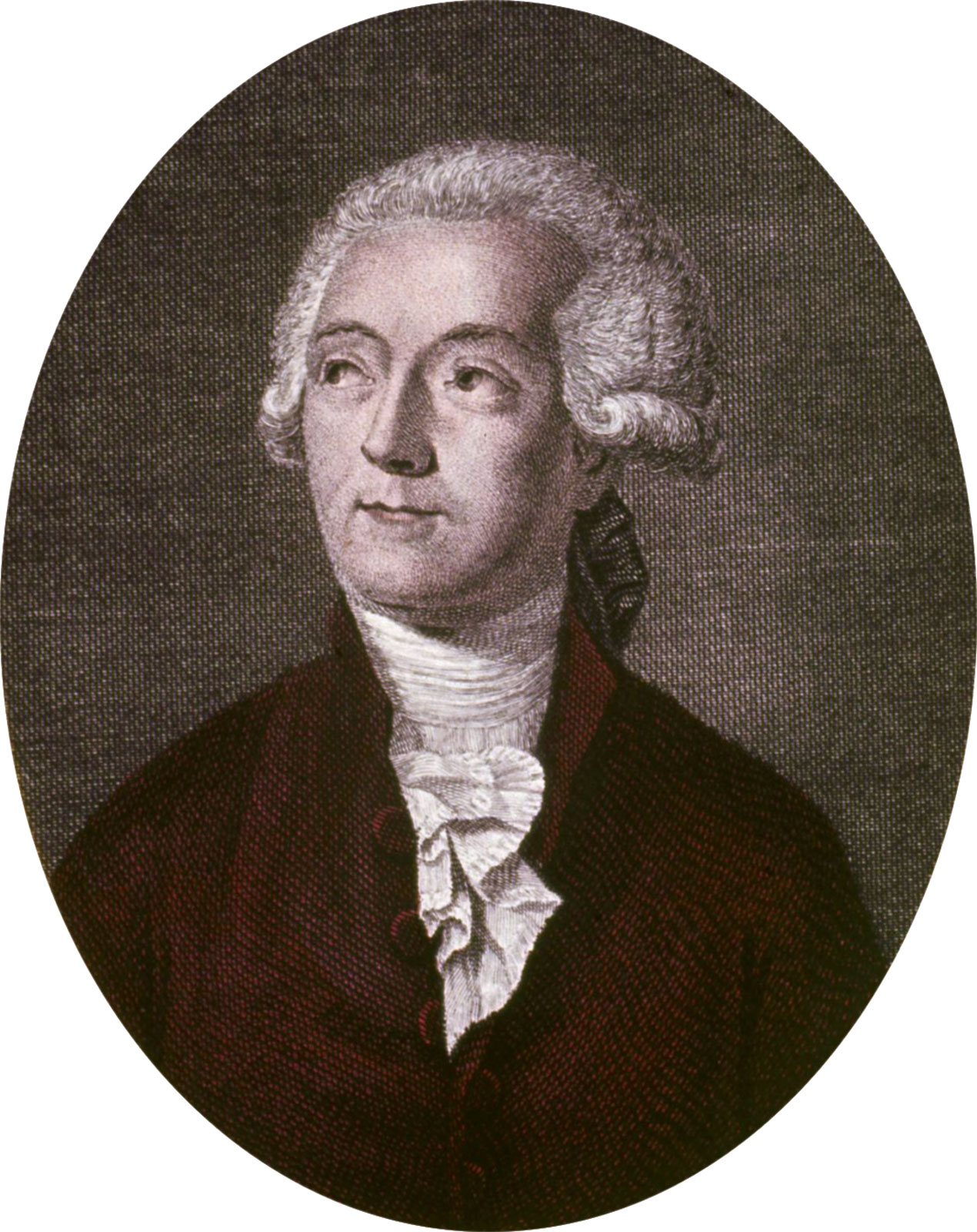 Antoine-Laurent de Lavoisier